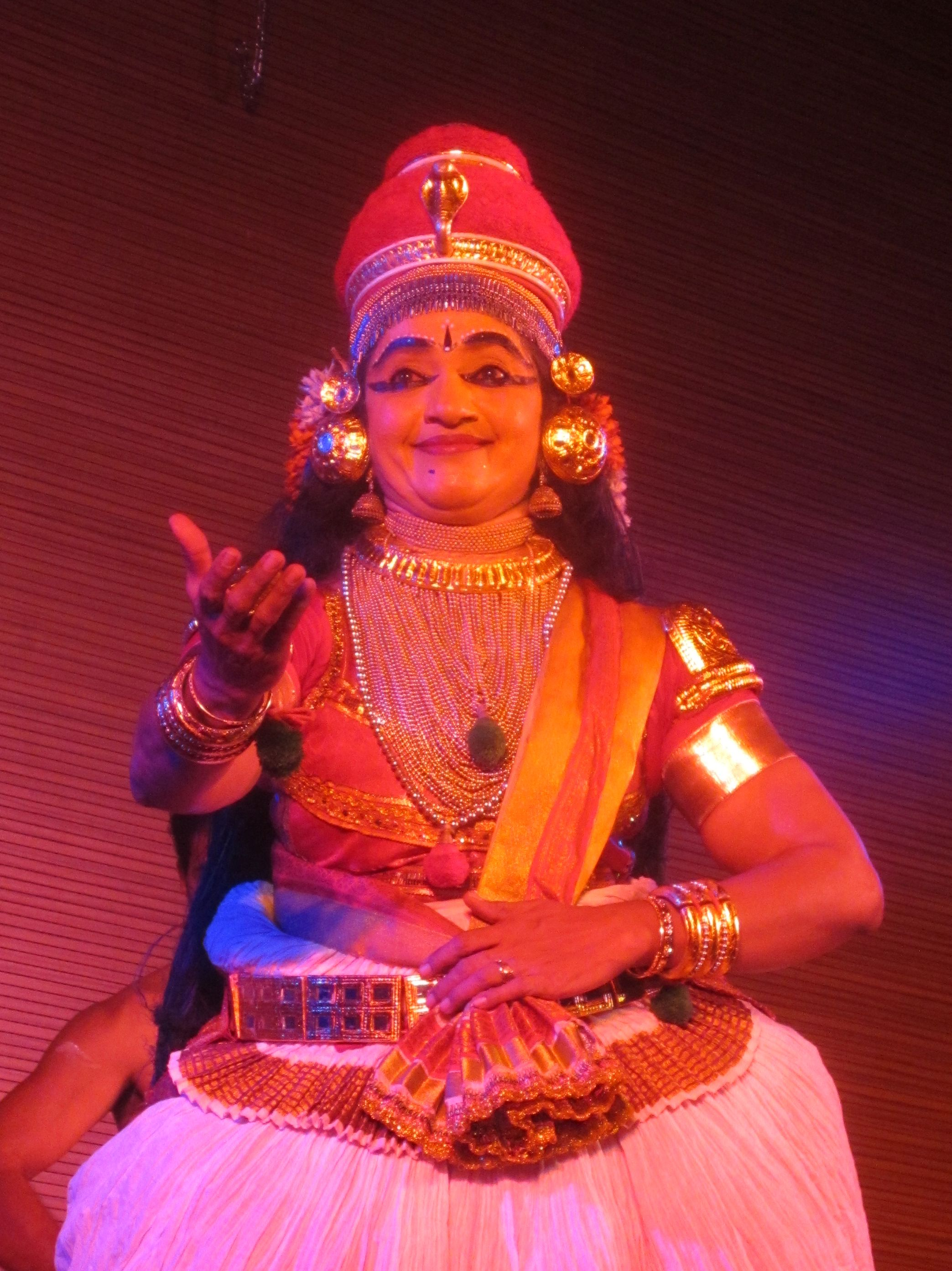 Usha Nangiar